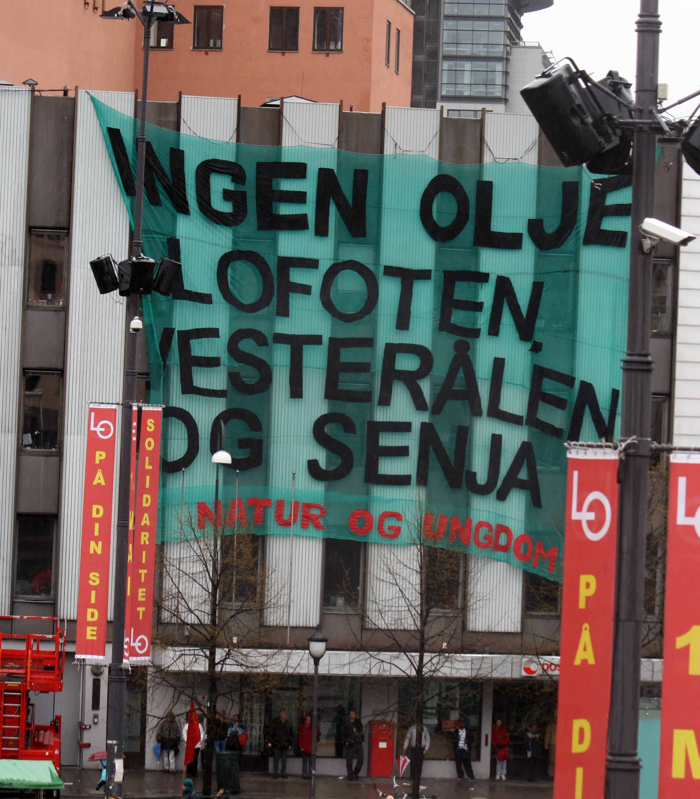 Labour Day 2010: Natur og Ungdom (Nature and Youth) covers a building at Youngstorget in Oslo, Norway with a banner against drilling for oil outside Lofoten, Vesterålen and Senja in Northern Norway